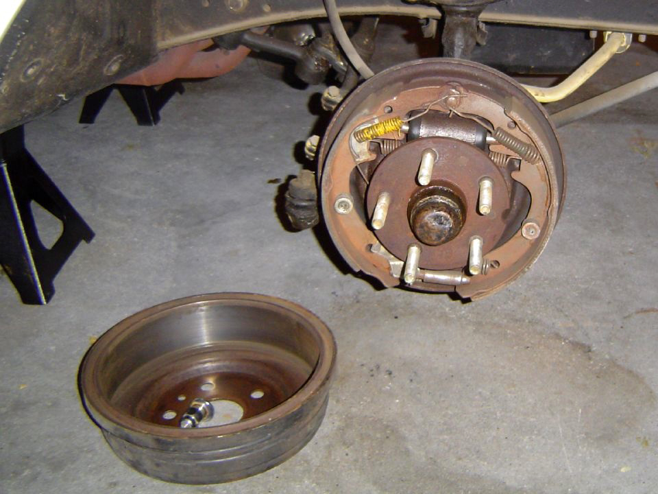 1963½ Ford Falcon Sprint - Close up of “Old school” brakes Se muestra un Cilindro de Rueda (Parte superior), las zapatas (laterales), Resortes de regresión, las Casuelas (en las zapatas) y el anclaje (parte inferior)